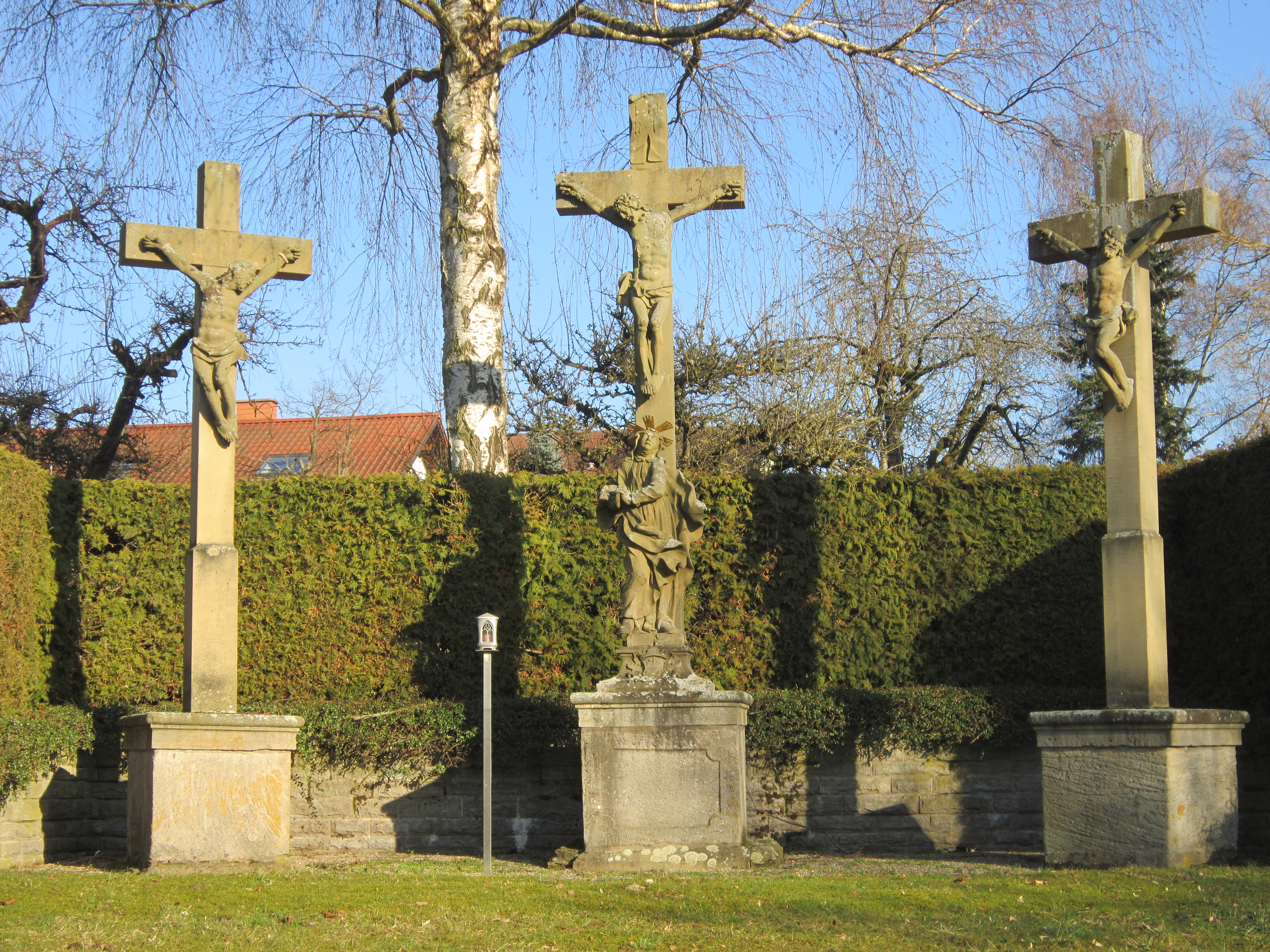 Crosses in Hausen, urban district of the German spa town Bad Kissingen (Bavaria, Germany). Legend has it that on the spot where they stand, a dead body fell off a carriage in the Plague in 1568/1569.